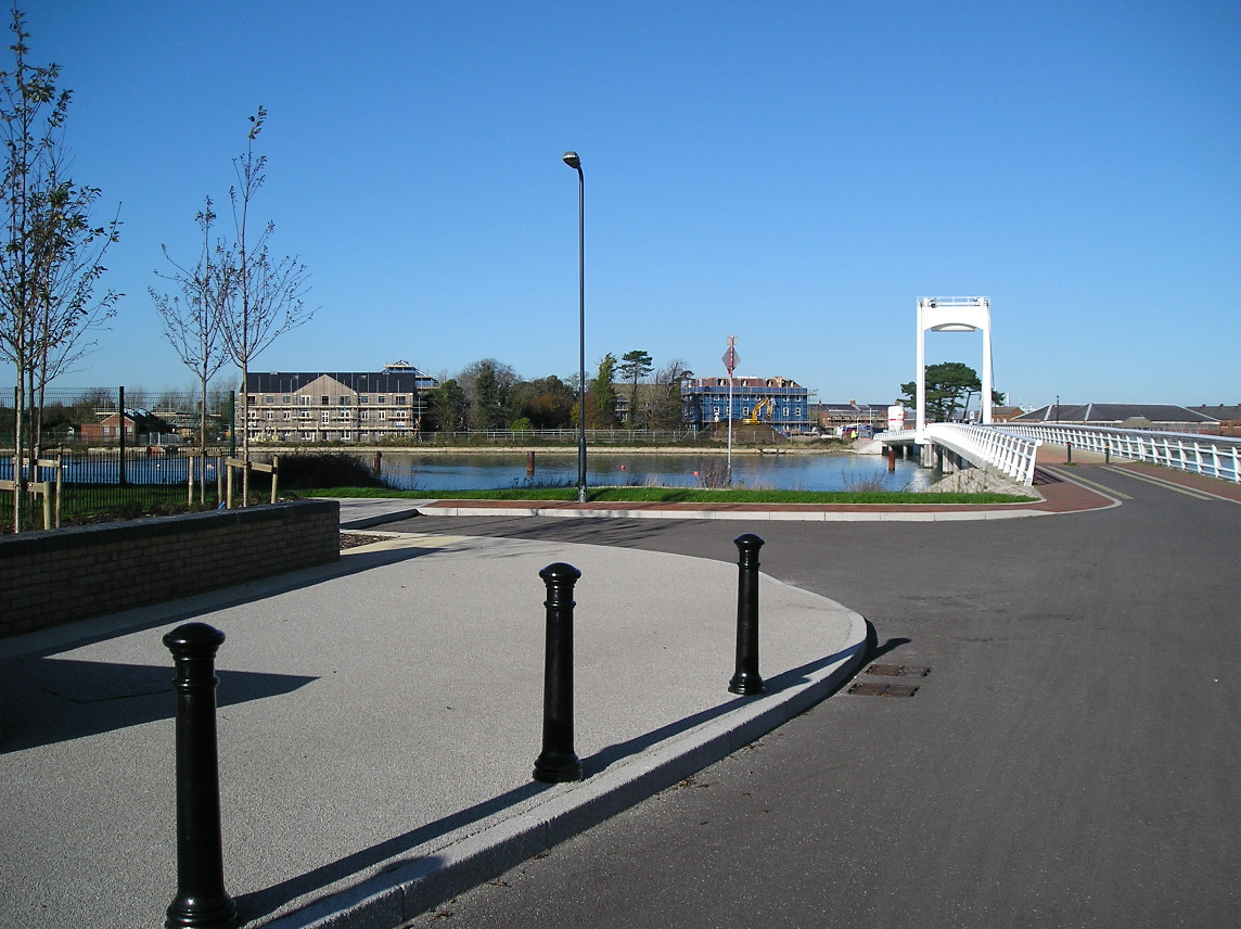 Forton Lake Millennium Bridge